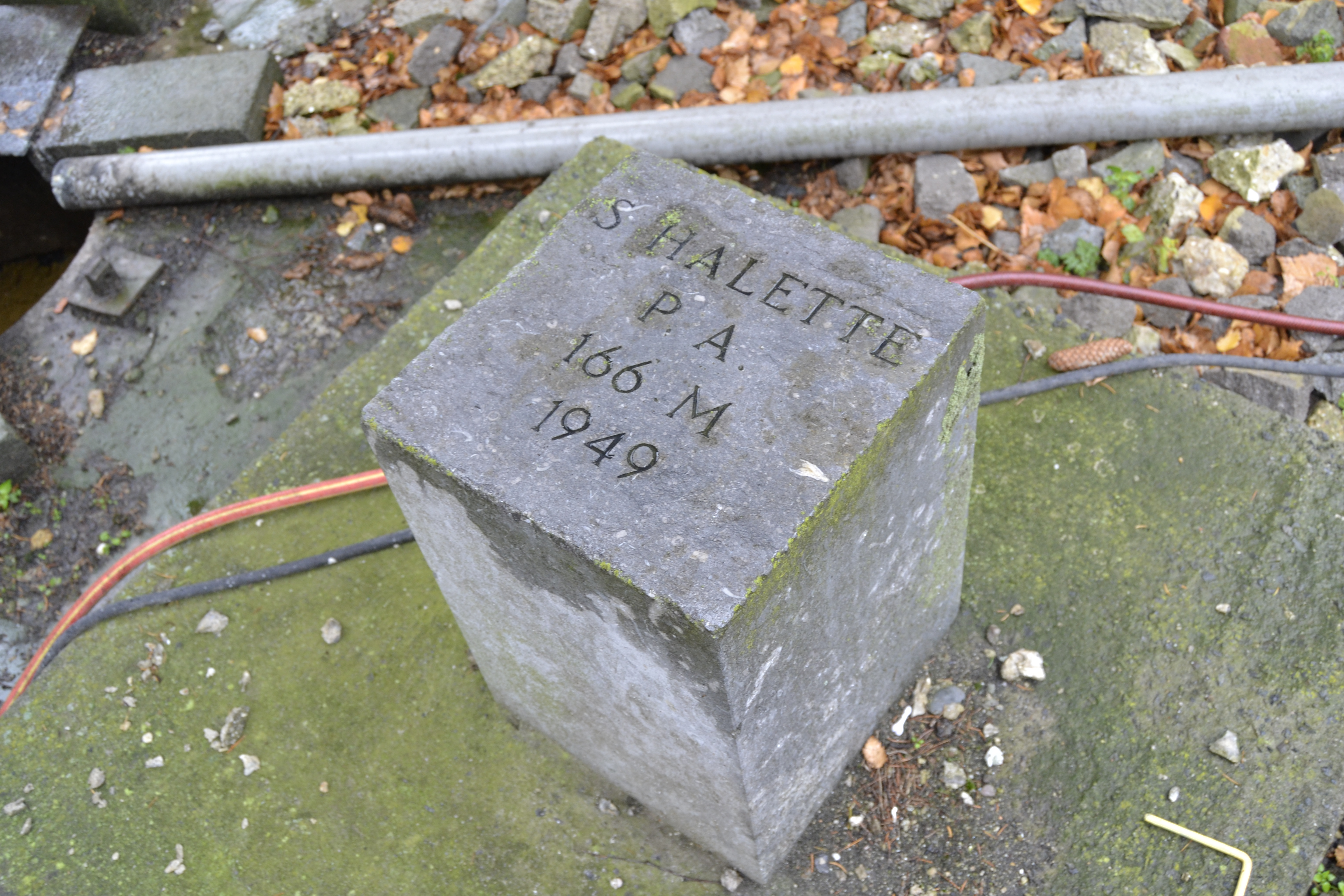 Ancient pit of the Halette coal mine in Mons-lez-Liège, Liège, Belgium